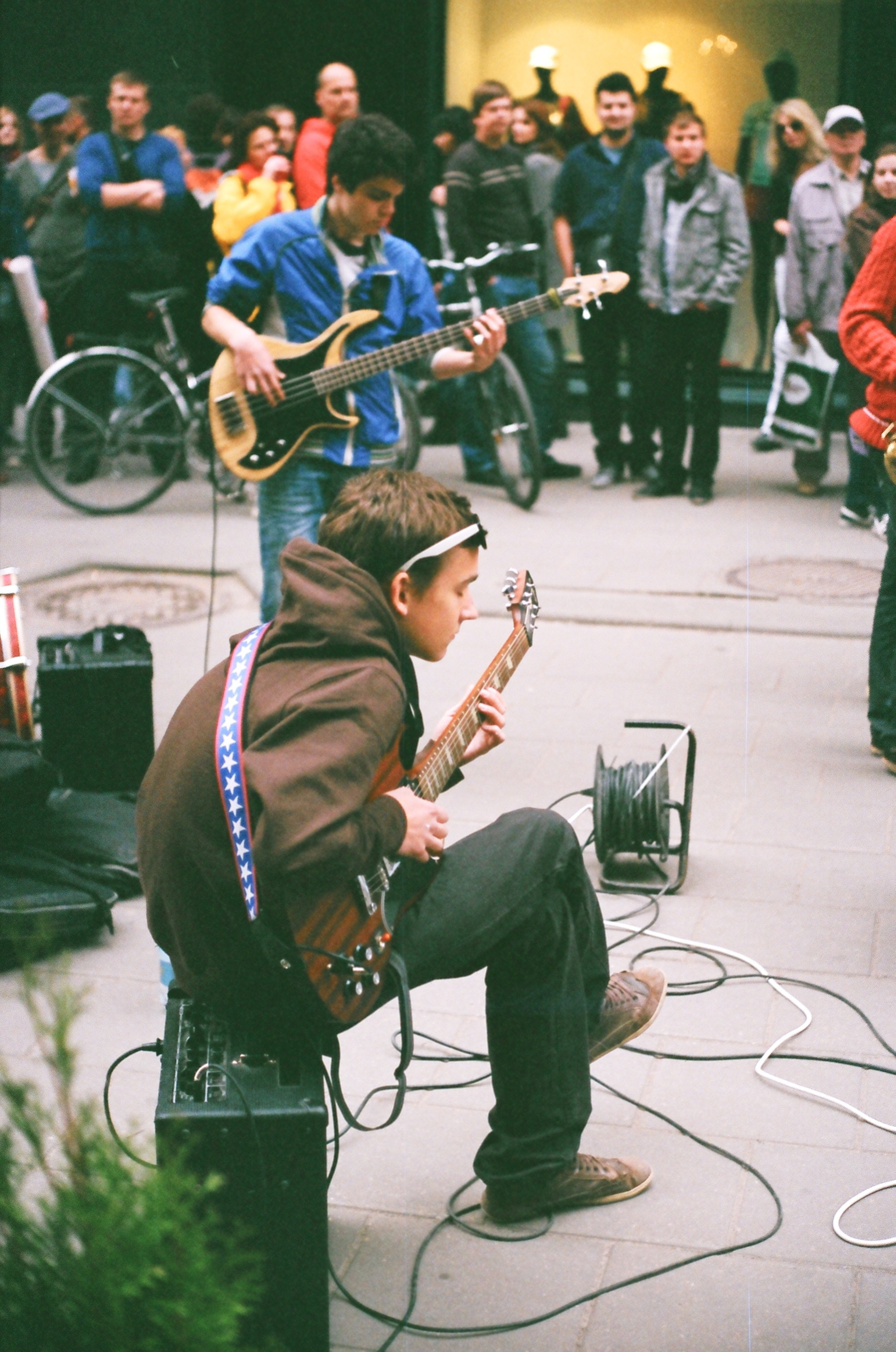 Street Music Day 2010